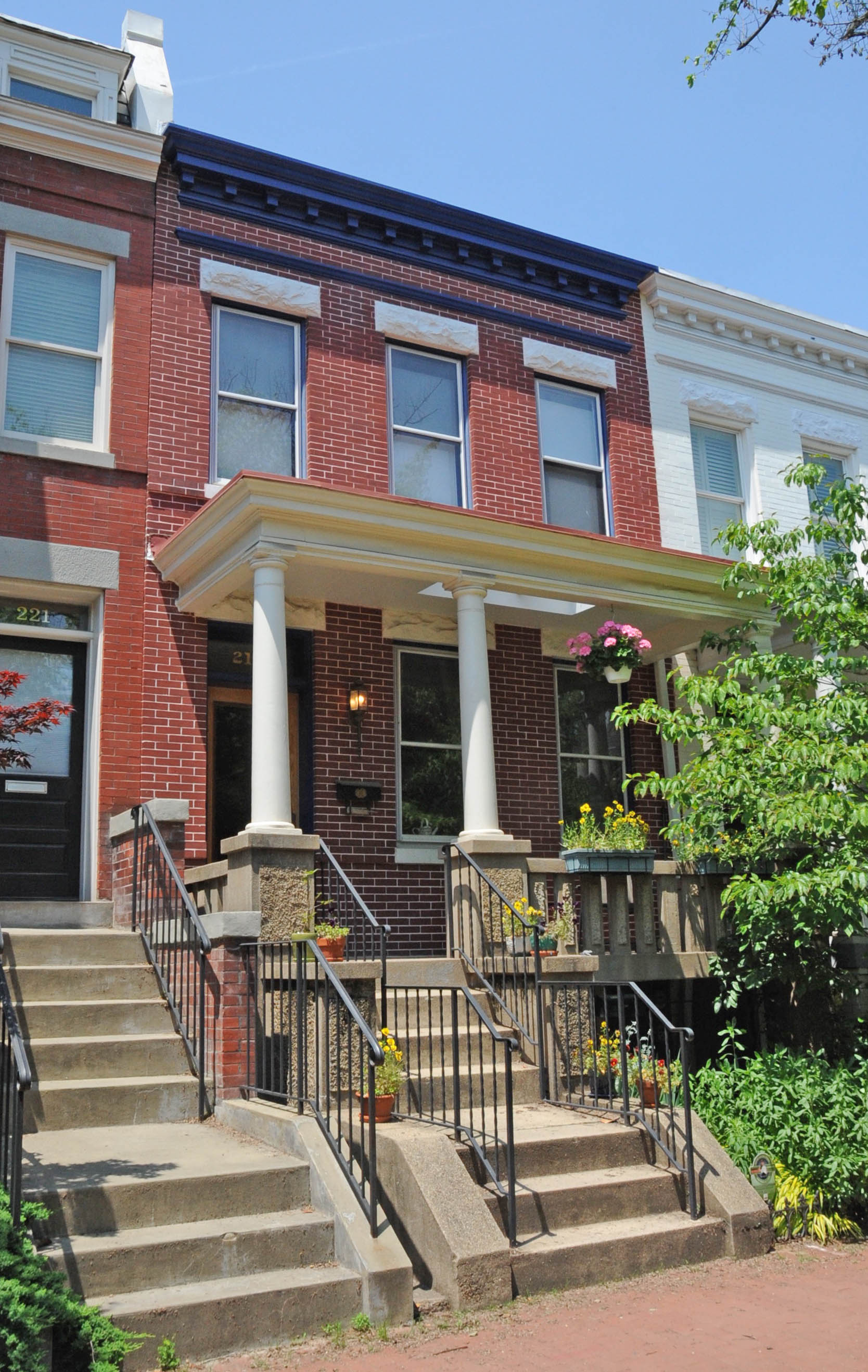 THE FURIES COLLECTIVE WAS A COMMUNAL LESBIAN GROUP IN THAT WAS ESTABLISHED IN THE SUMMER OF 1971. THE GROUP INTENDED TO GIVE A VOICE TO LESBIAN SEPARATISM THROUGH ITS NEWSPAPER. THIS WAS ONE OIF THE BEST KNOWN COMMUNAL GROUPS IN WASHINGTON. THERE WERE 12 WOMEN LIVING IN THE HOUSE AGED 18 TO 28.